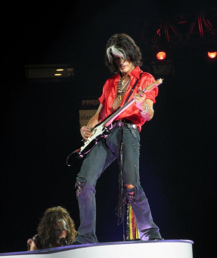 Joe Perry with Steven Tyle (piano) performing dream on at the Nassau Colliseum on July 1, 2012.